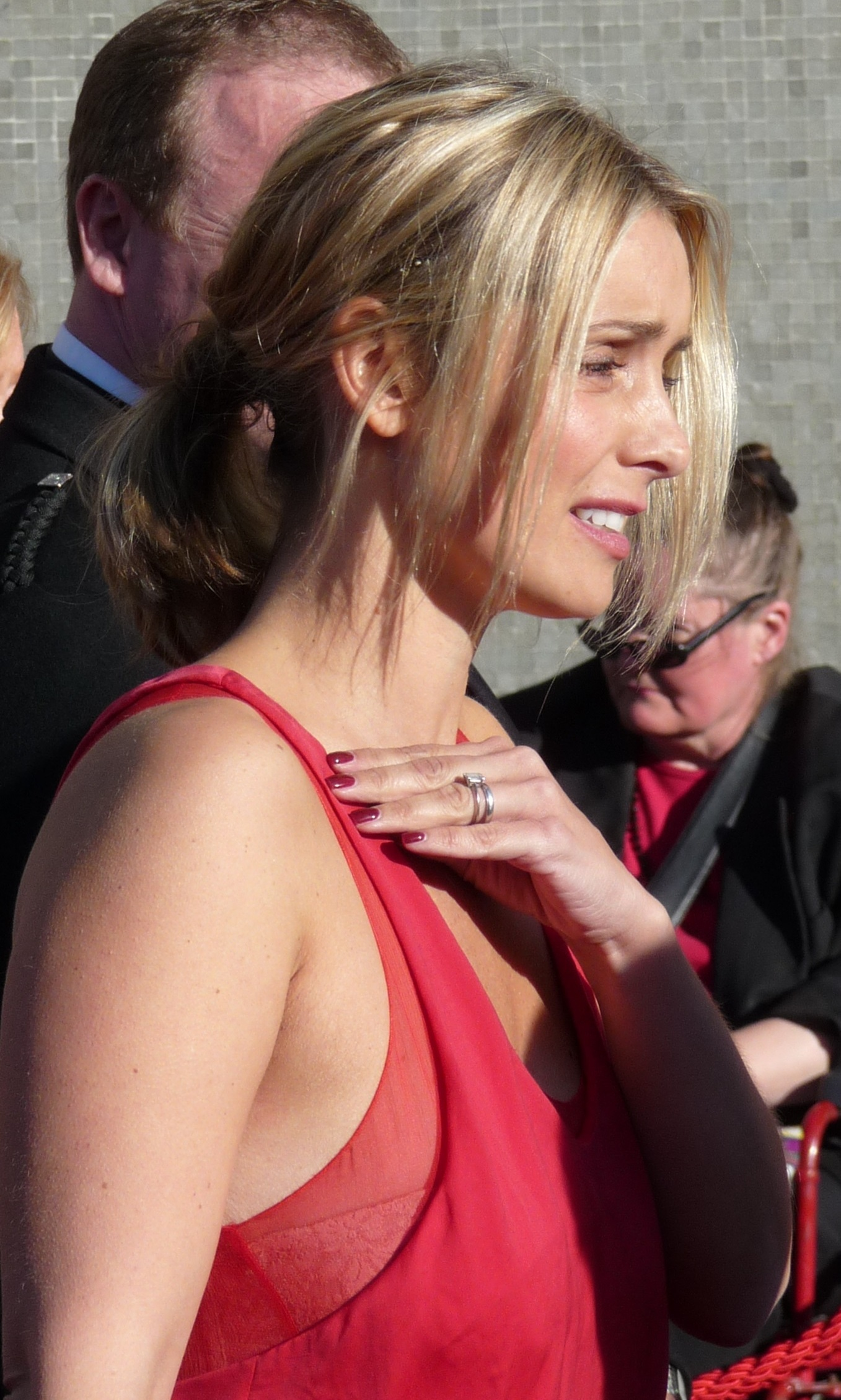 Louise Redknapp on the red carpet at the BAFTA Awards, held at the Royal Festival Hall, on the Southbank in London.